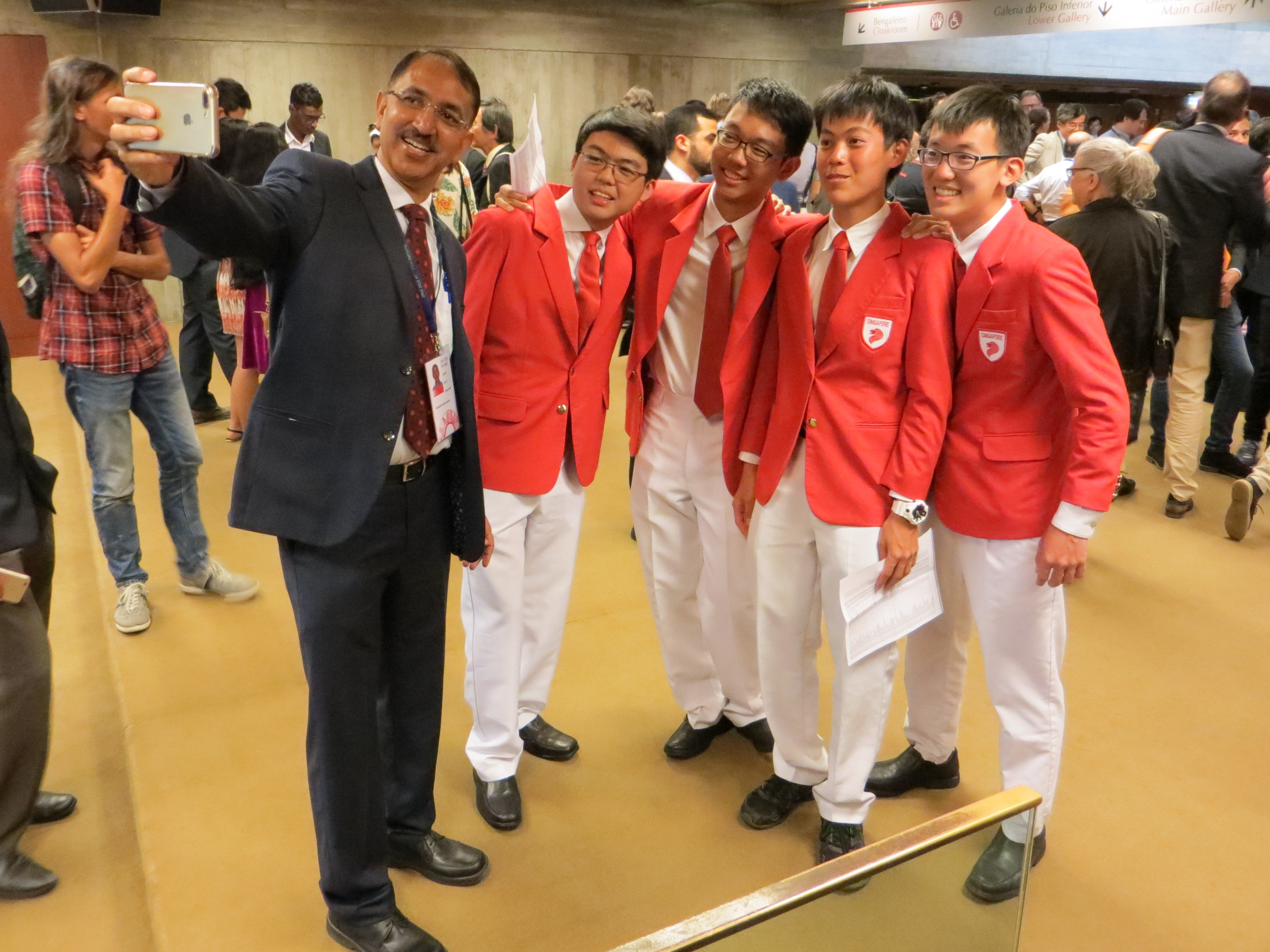 The Singaporean team at the 2018 International Physics Olympiad in Lisbon, Portugal, together with their leader Rajdeep Singh Rawat.